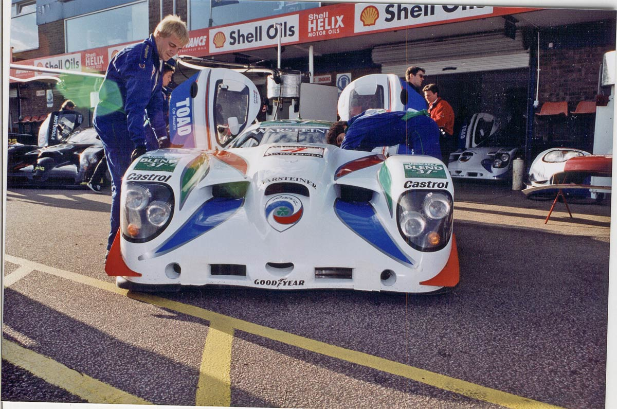 Panos GT1 Donnington 1997, I Still remember the first time I heard this car, FANTASTIC